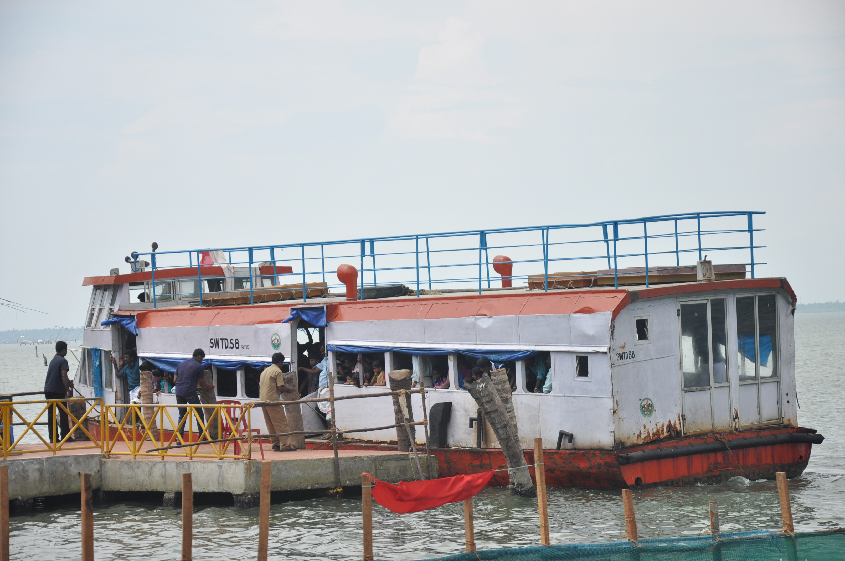 This media file is uploaded with India loves Wikipedia event. A view of the urul nercha ritual held in connection with the annual festival of the Ashtamudi Sri Veerabhadra Swami temple near Kollam